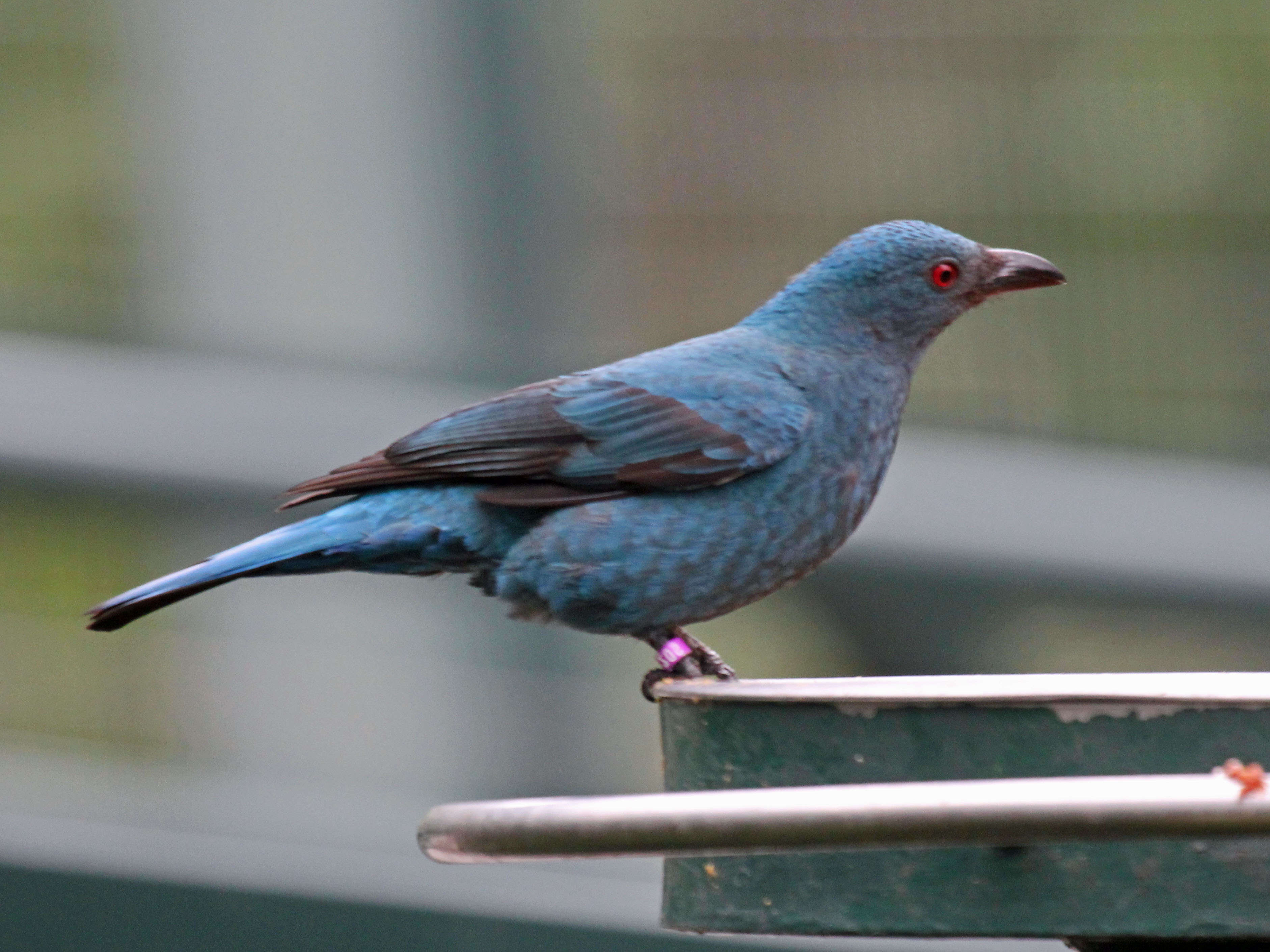 Female Asian Fairy-bluebird (Irena puella) - San Diego Zoo